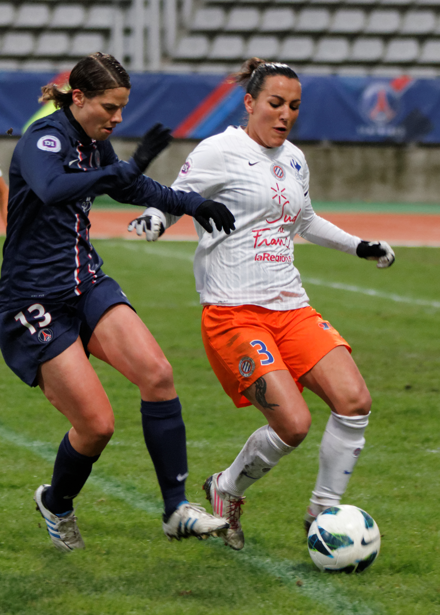 PSG-Montpellier, January 13th, 2013. Kelly Gadea (Montpellier) et Annike Krahn (PSG).